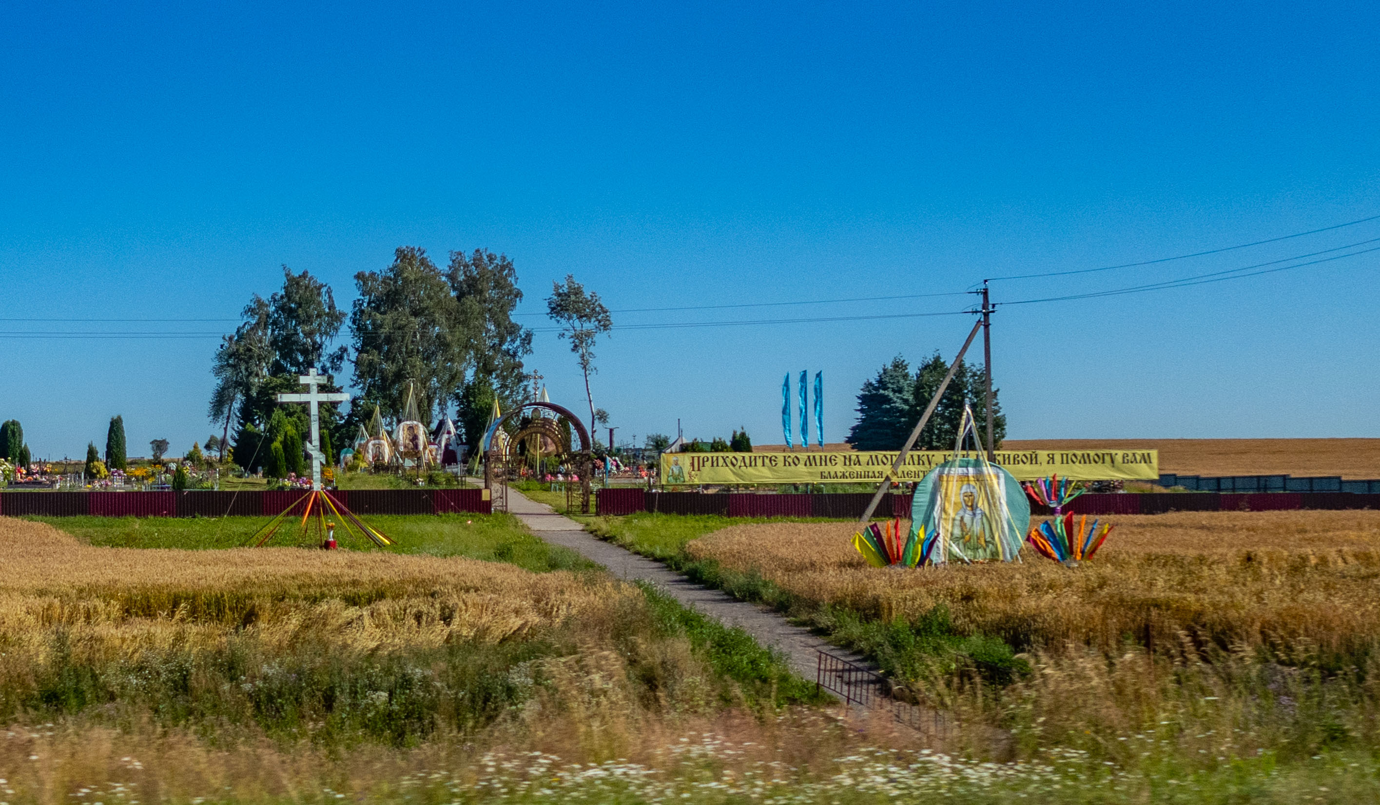 Cemetery with the grave of the blessed Valiancina Minskaja. Dziaržynsk district, Minsk region, Belarus